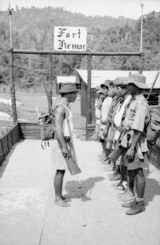 Local guards from the Senoi tribe at Fort Kemar, one of a chain of posts in the heart of the central mountain range of Malaya. These forts protected the local population from raids by communist guerillas and also provided forward bases for British operations.